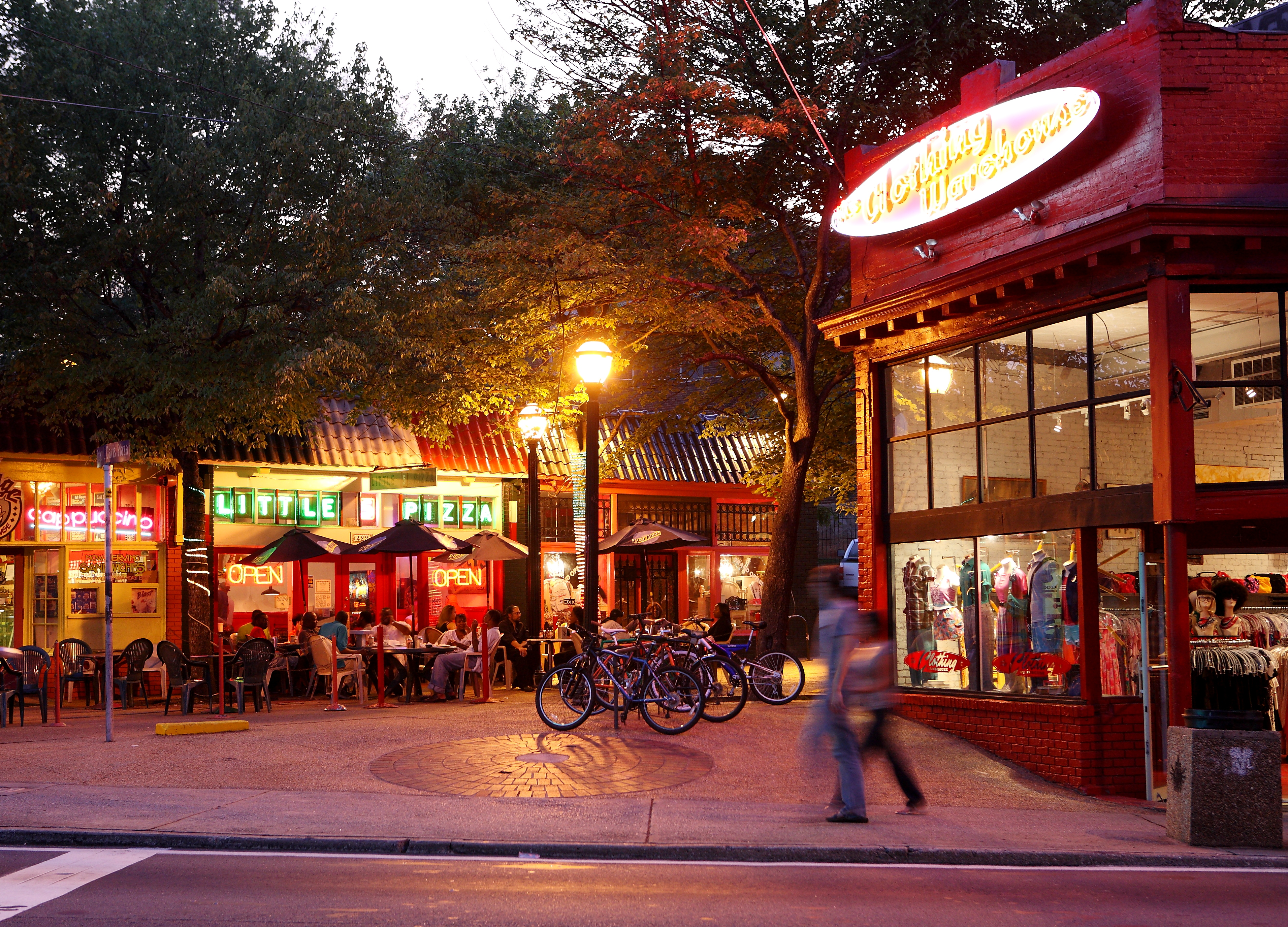 Little Five Points area of Atlanta, Georgia, USA.